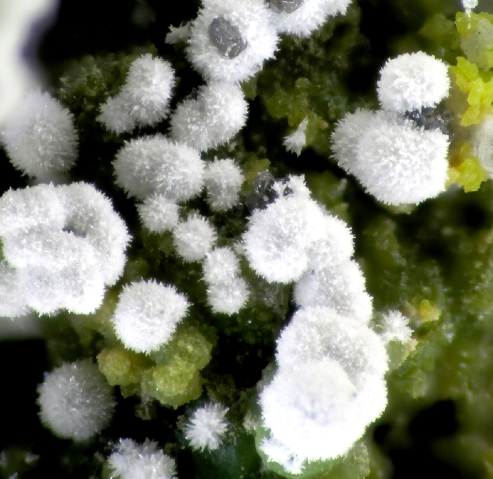 Schieffelinite, Emmonsite Locality: Grand Central Mine, Contention-Grand Central Mine group, Tombstone District, Tombstone Hills, Cochise Co., Arizona, USA White schieffelinite with green emmonsite. Picture width 3 mm. Collection and photograph Christian Rewitzer